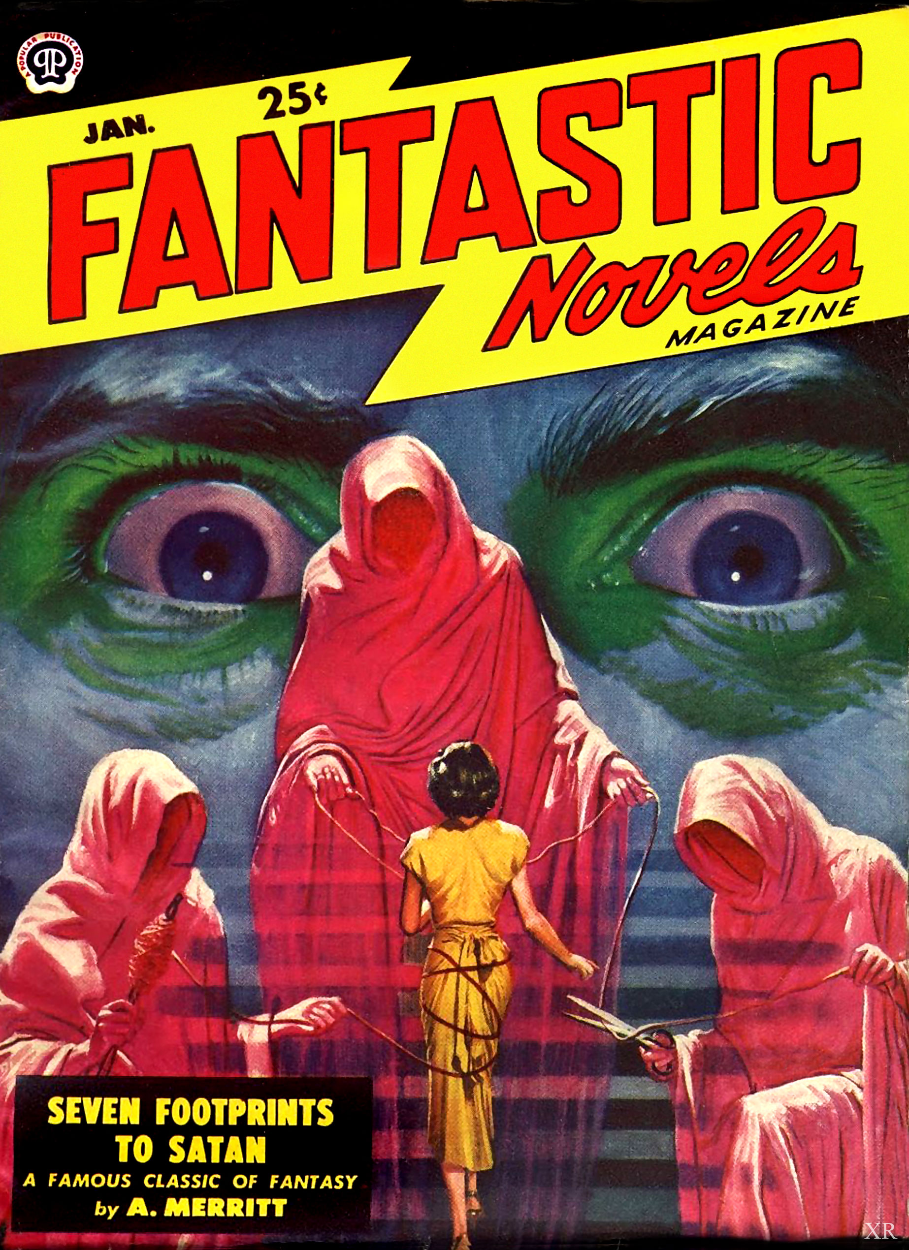 Cover of the January 1949 issue of Fantastic Novels magazine